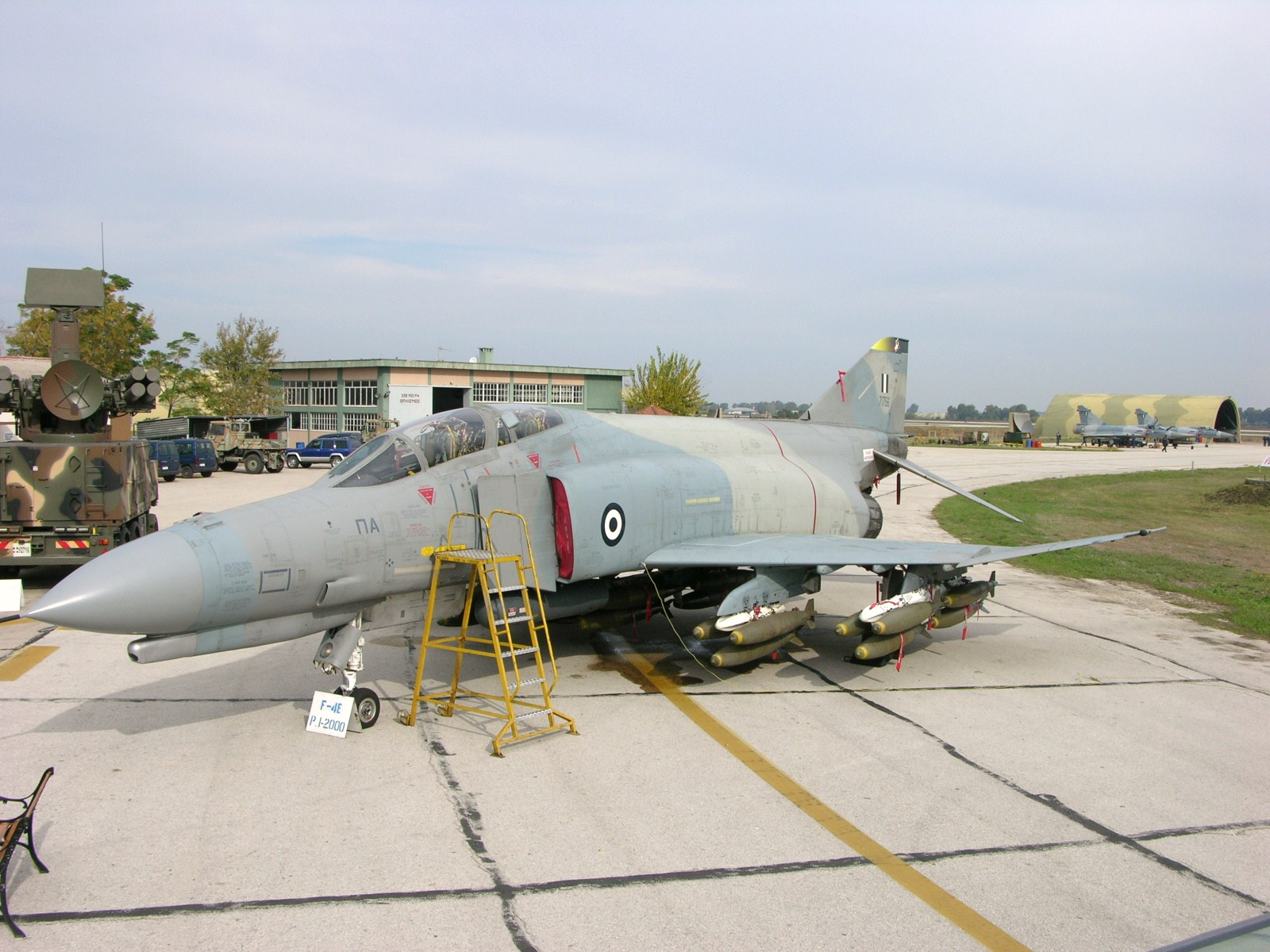 Bombed up Phantom at its base, Andravida, November 2008